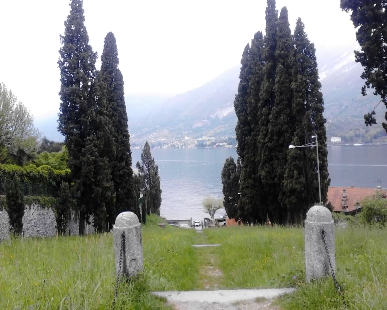 Loppia (Bellagio - Italy)